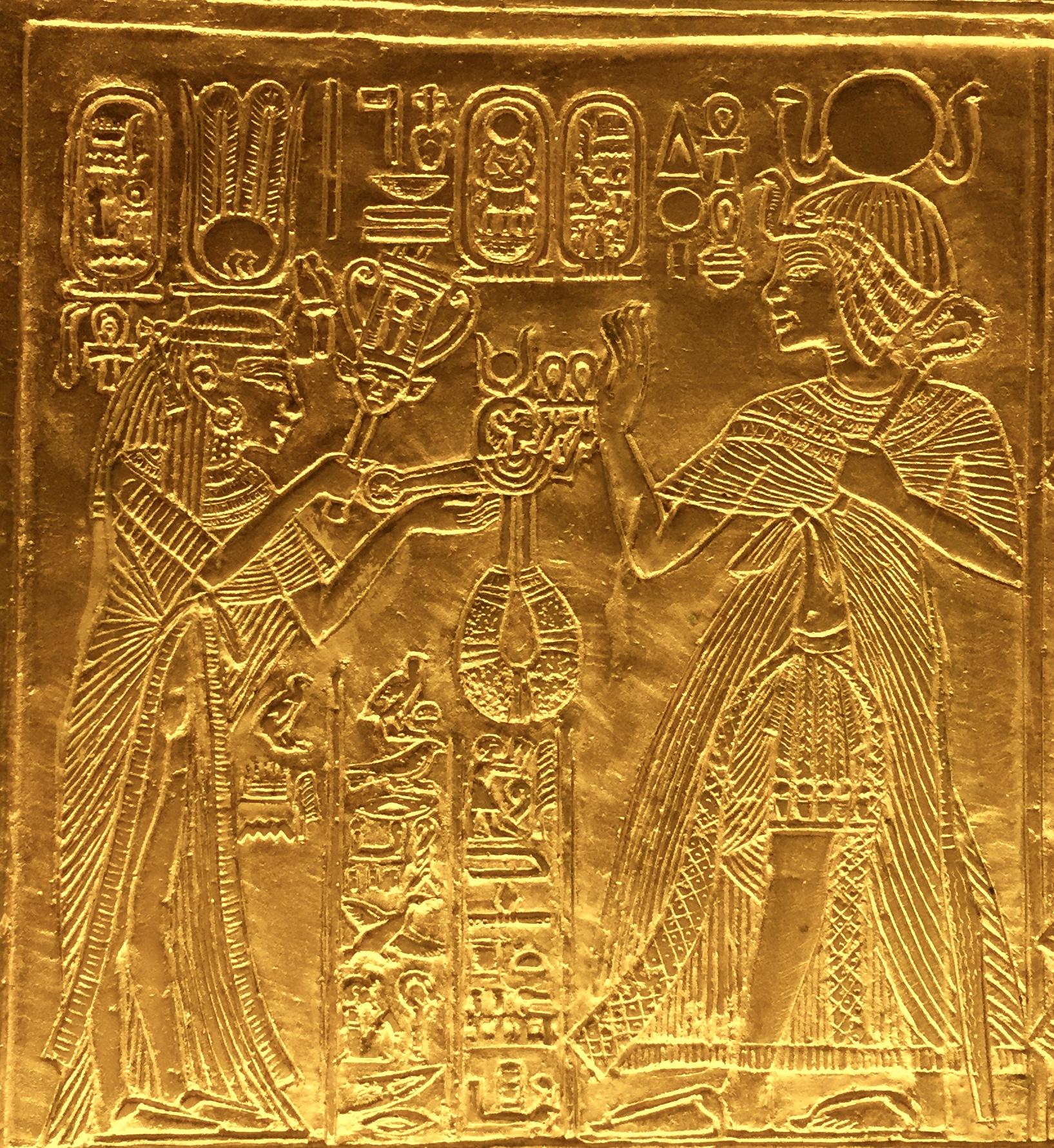 Scene from gilded shrine of Tutankhamen showing him and his wife Queen Ankhesenamun. Queen hols a sistrum and menat.